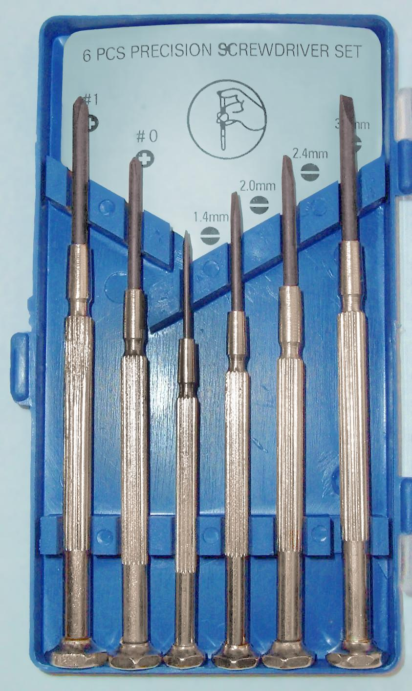 A set of Jeweler's screwdrivers. Brightened version of original